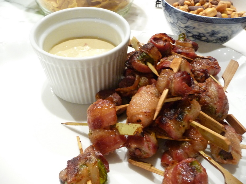 Duck rumaki - duck meat and jalapenos wrapped in bacon